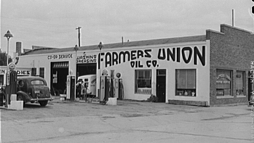 Gas station at Farmers' Cooperative in Williston, North Dakota